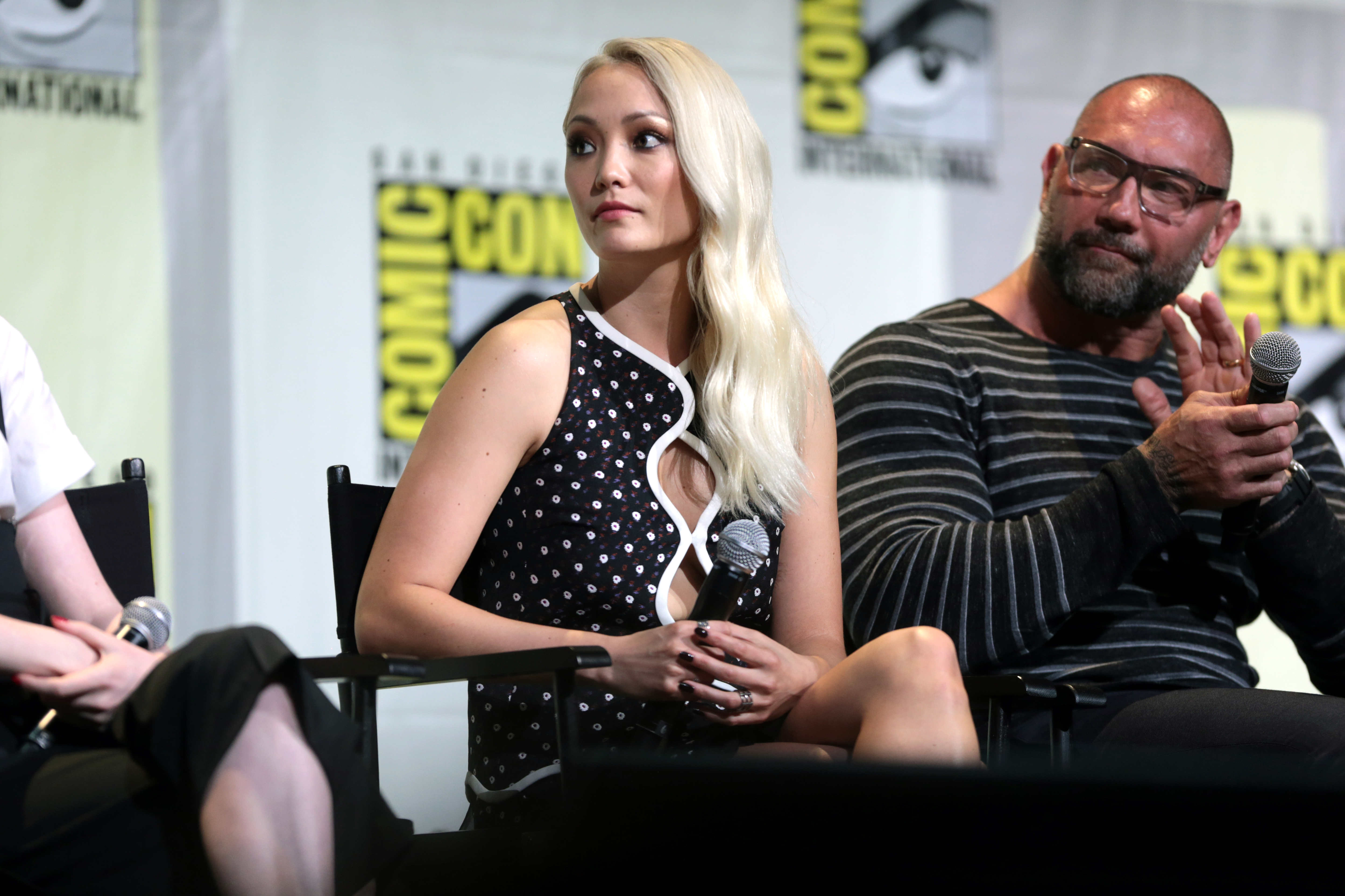 Pom Klementieff and Dave Bautista speaking at the 2016 San Diego Comic Con International, for "Guardians of the Galaxy Vol. 2", at the San Diego Convention Center in San Diego, California.